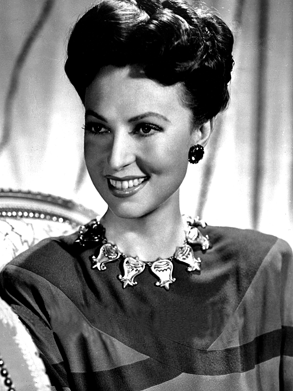 Publicity photo of Agnes Moorehead